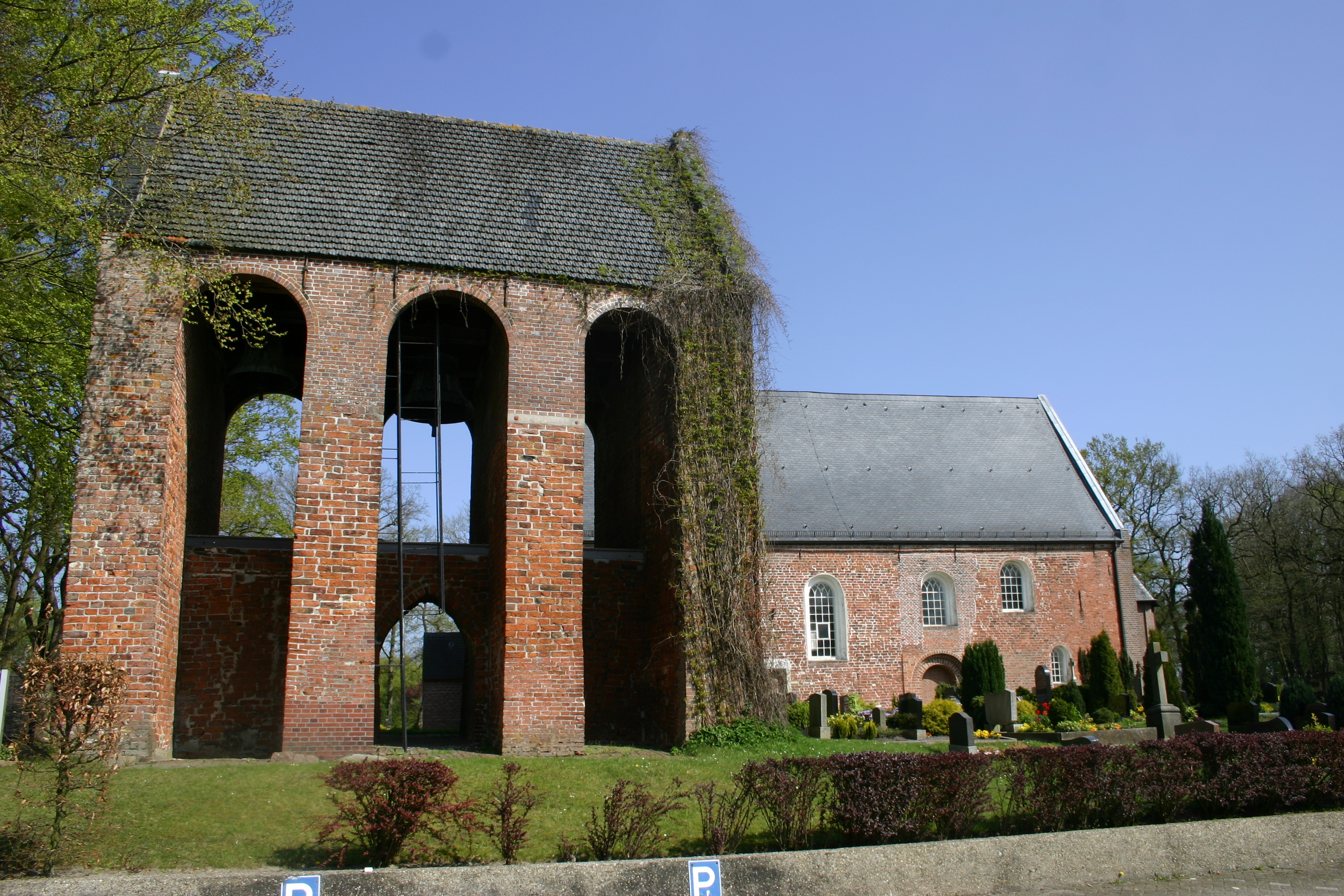 Historic church in Weene, district of Aurich, East Frisia, Germany